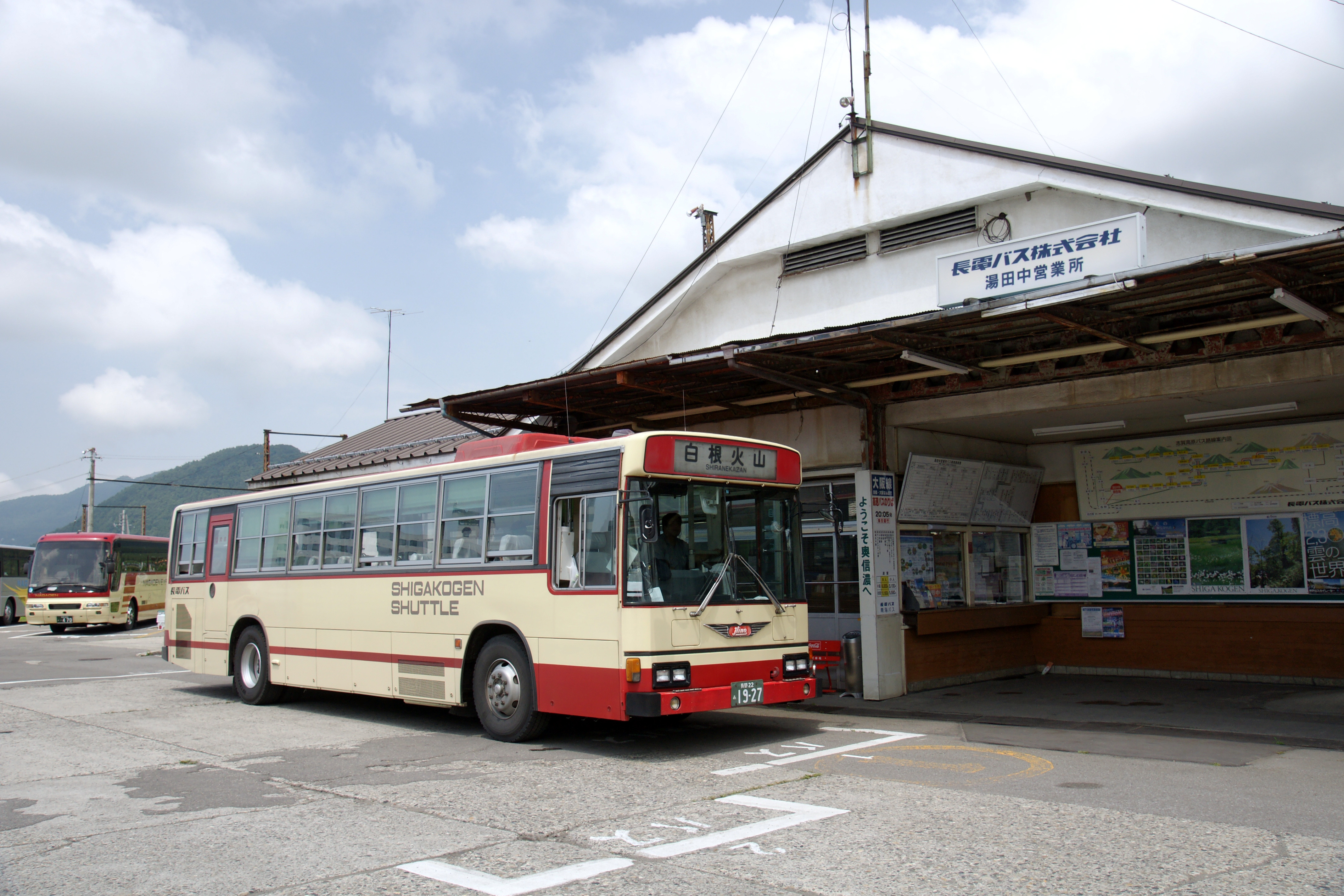 Yudanaka Station ,Yamanouchi, Nagano prefecture, Japan